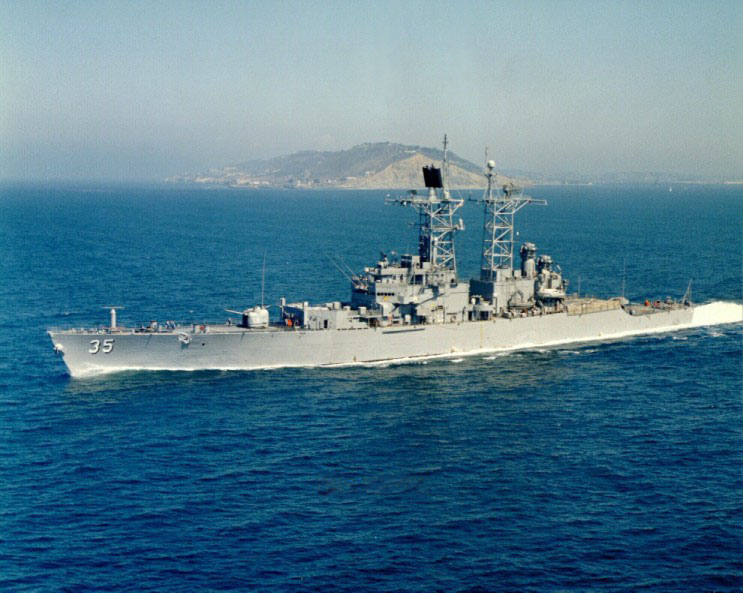 The U.S. Navy guided missile cruiser USS Truxtun (DLGN-35/CGN-35) underway off Point Loma, California (USA), circa in the 1970s.